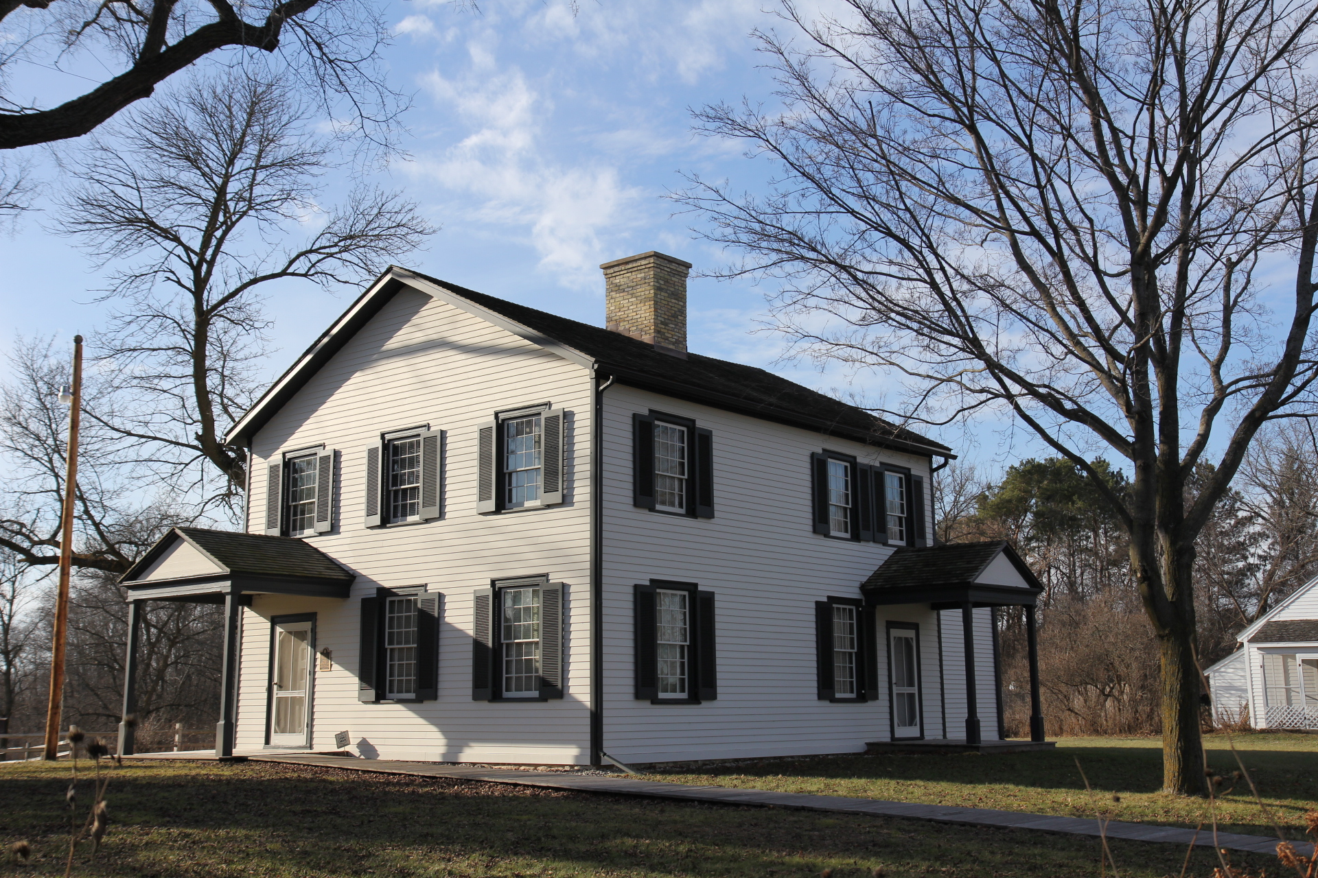 Looking at the Old Indian Agency House in Portage, Wisconsin. It housed the Indian agent related to Fort Winnebago and it is located very close to the Portage Canal.